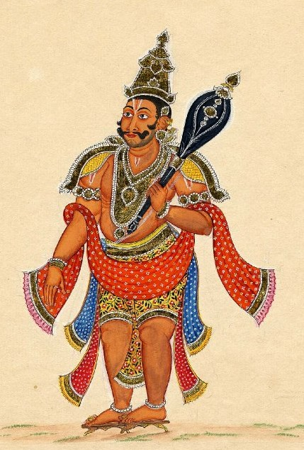 Gouache painting on paper from a portfolio of sixty-three paintings of deities and daily life. A powerfully built figure, probably Bhíma, with a bushy moustache,and Vaishnava namams (emblems) on forehead, arms and chest, rests his huge club on his left shoulder. The figure has elaborately rendered shoulder ornaments.